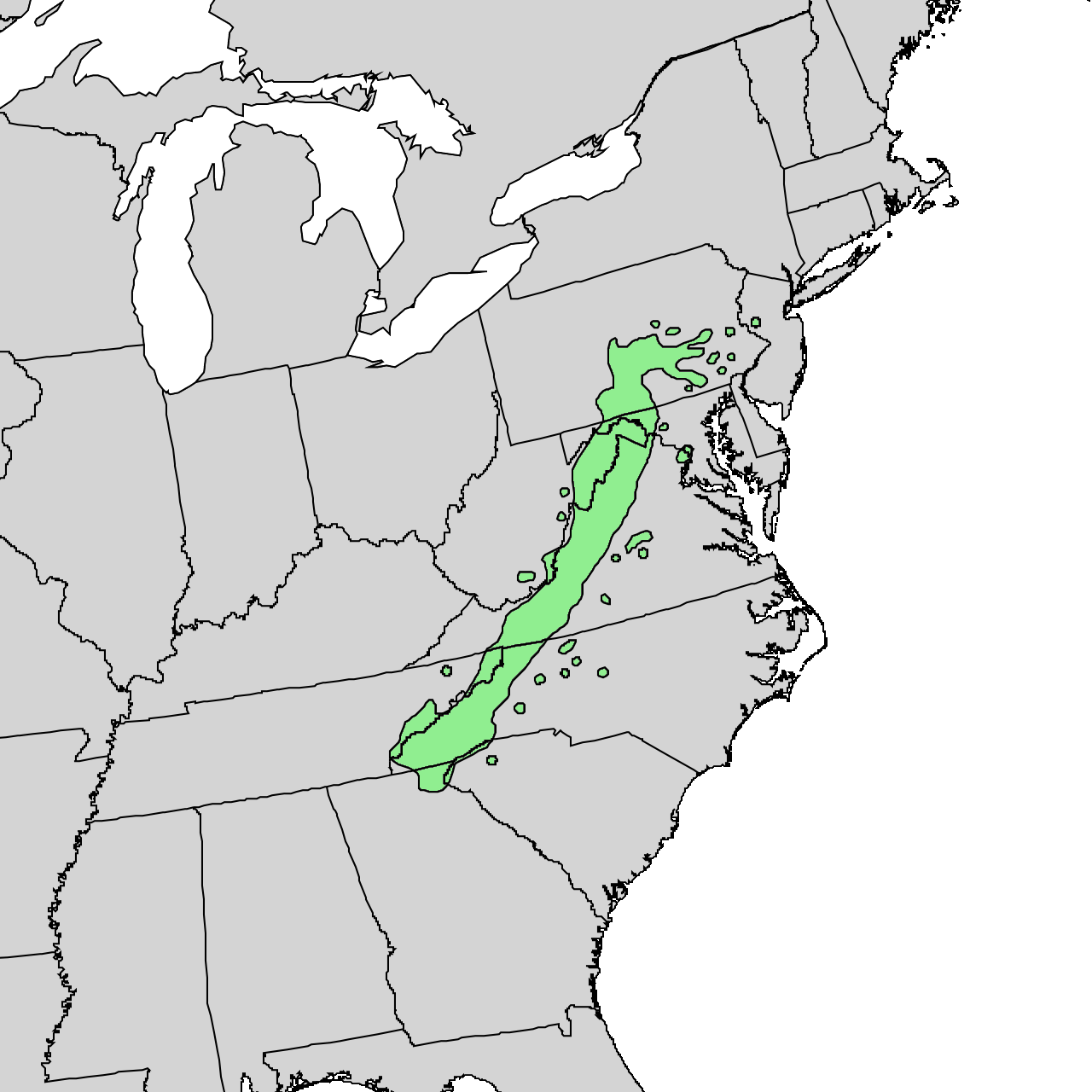 Natural distribution map for Pinus pungens